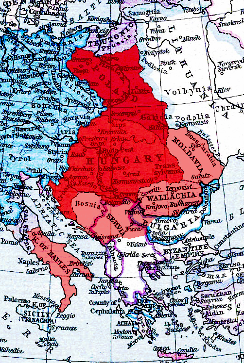 Detail of